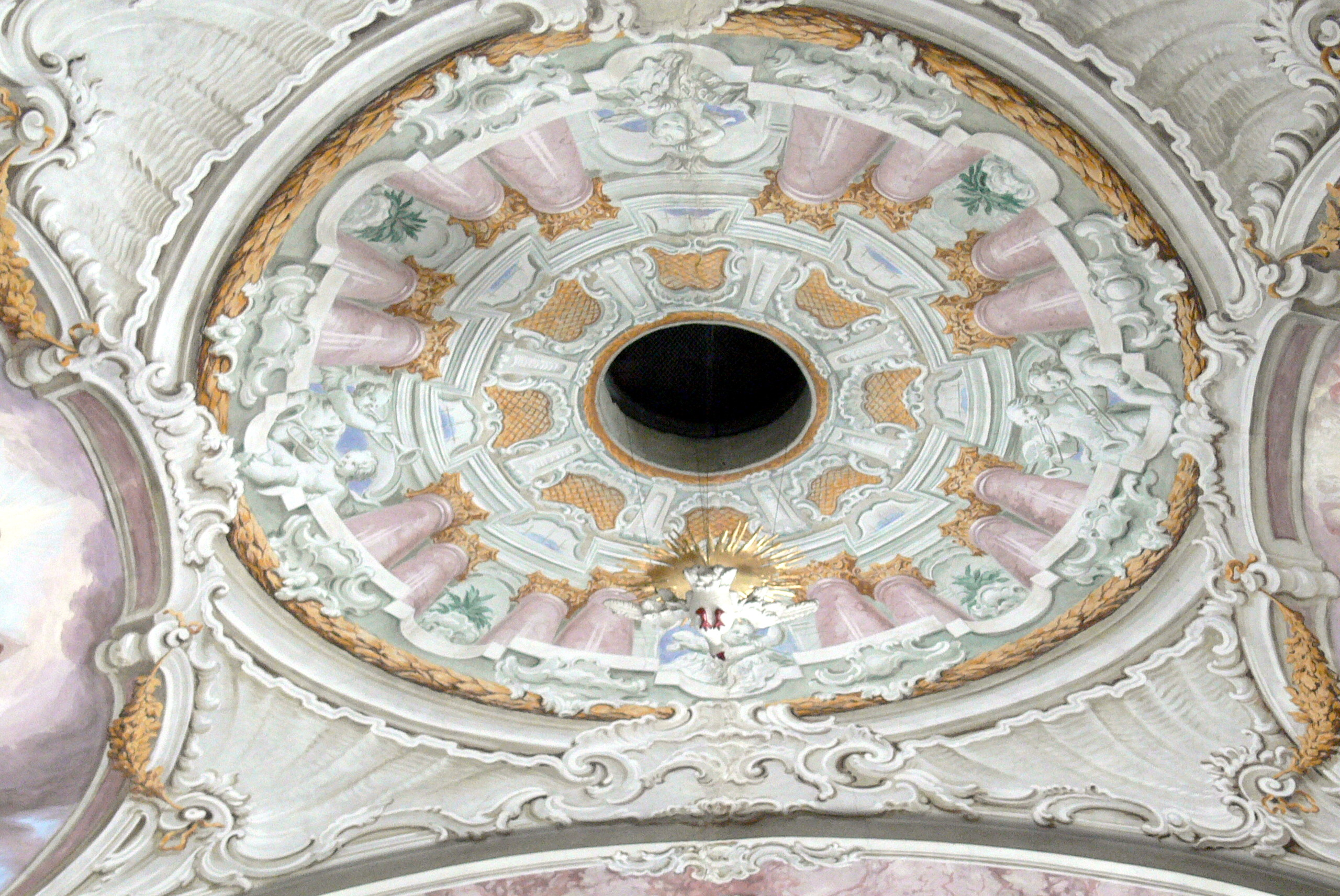 St.Peter and Paul parish church in Söll ( Tyrol ). Holy-Spirit-hole with dove.